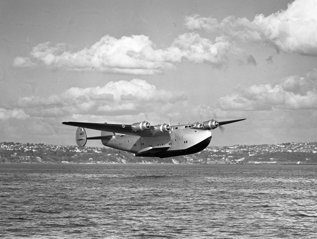 A Boeing 314 "Clipper" in flight. This Boeing 314 (c/n 2081; US civil registration NC18607) was built for the British Overseas Airways Corporation (BOAC) and served with the UK registration G-AGBZ from 1941 to 1948. It was sold to the General Phoenix Corporation, Baltimore, Maryland (USA), as NC18607 in 1948 and later scrapped.